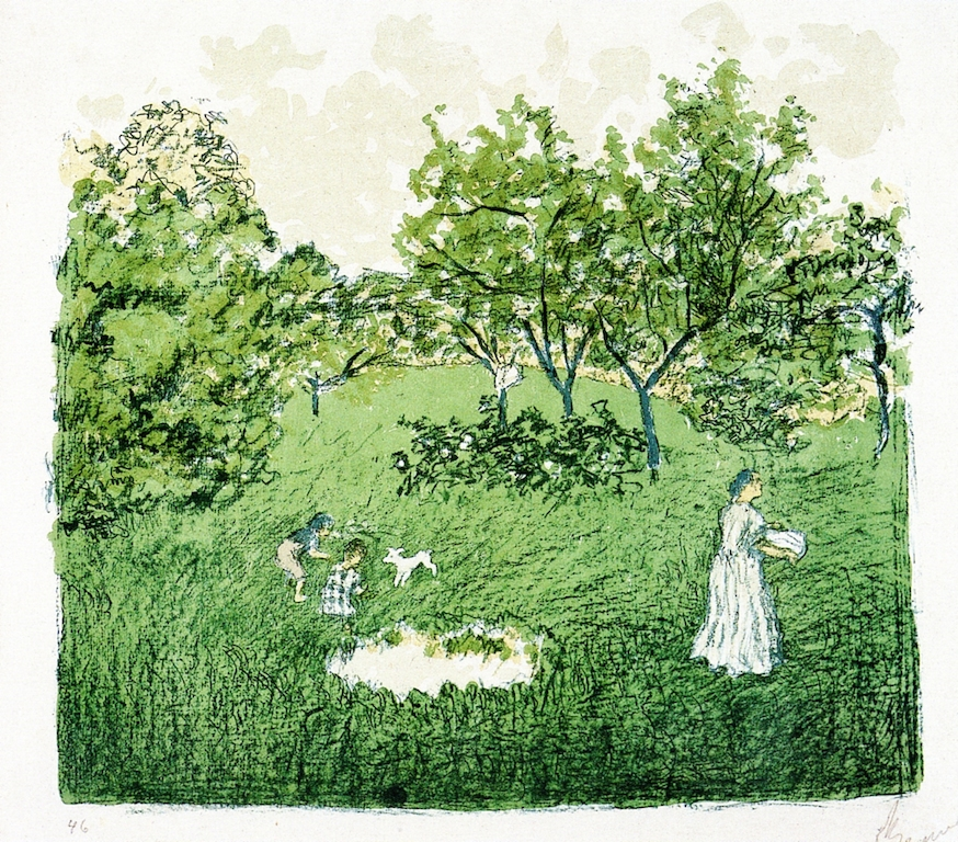 Painting by Pierre Bonnard